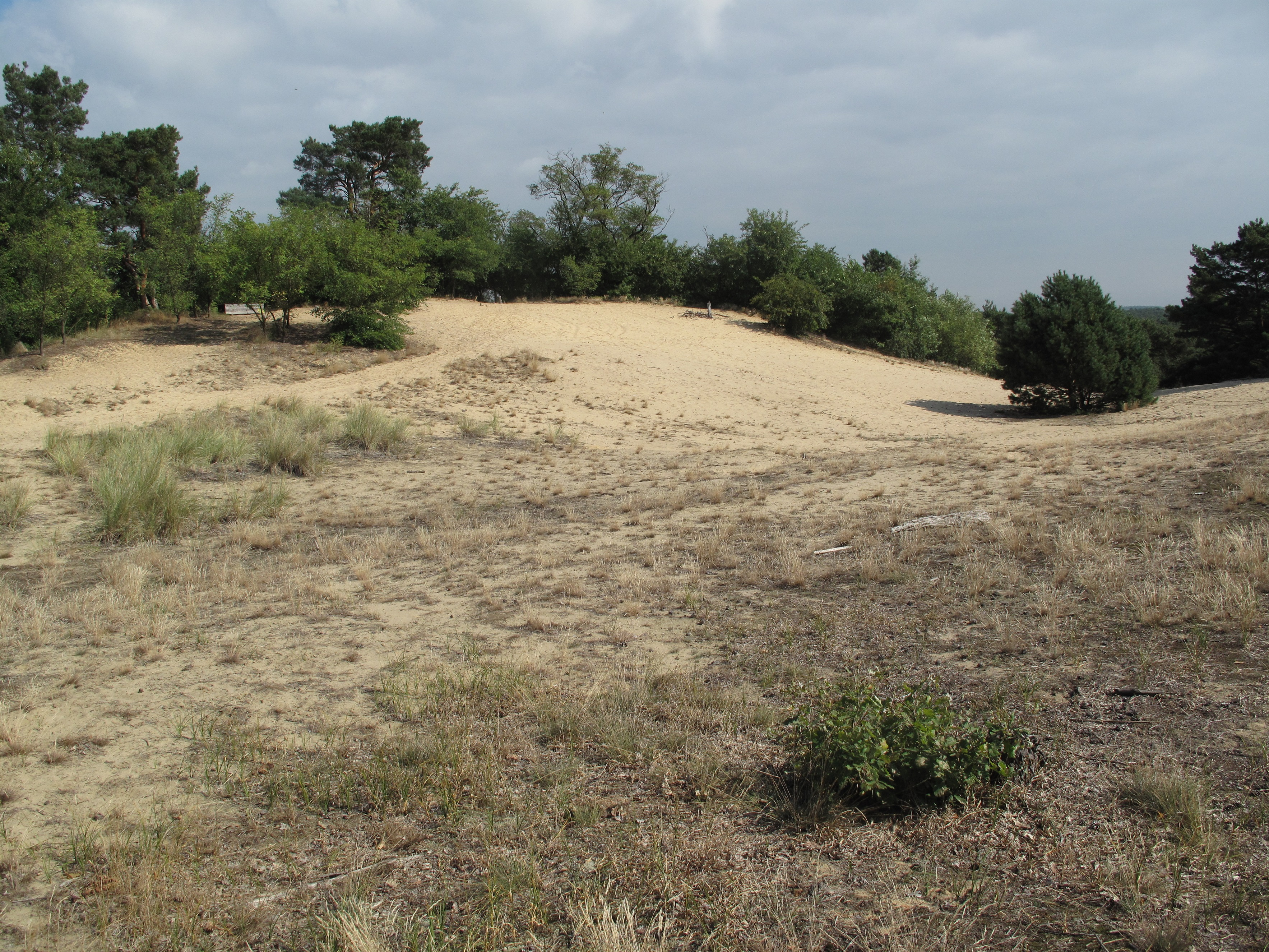 The „Binnendüne Waltersberge“ is one of the largest inland dunes in Brandenburg, Germany. The dune is situated in the town Storkow, District Oder-Spree, just over the eastern border of the Dahme-Heideseen Nature Park. The centre of the area, which covers about 14 hectare, is designated as a Naturschutzgebiet (protected area) and Natura 2000-area. Nearly just beside the northern bank of the Großer Storkower See (lake), rises above the dune with its largest peak, the Storkower Weinberg (69 metres), up to 32 metres over the sea.